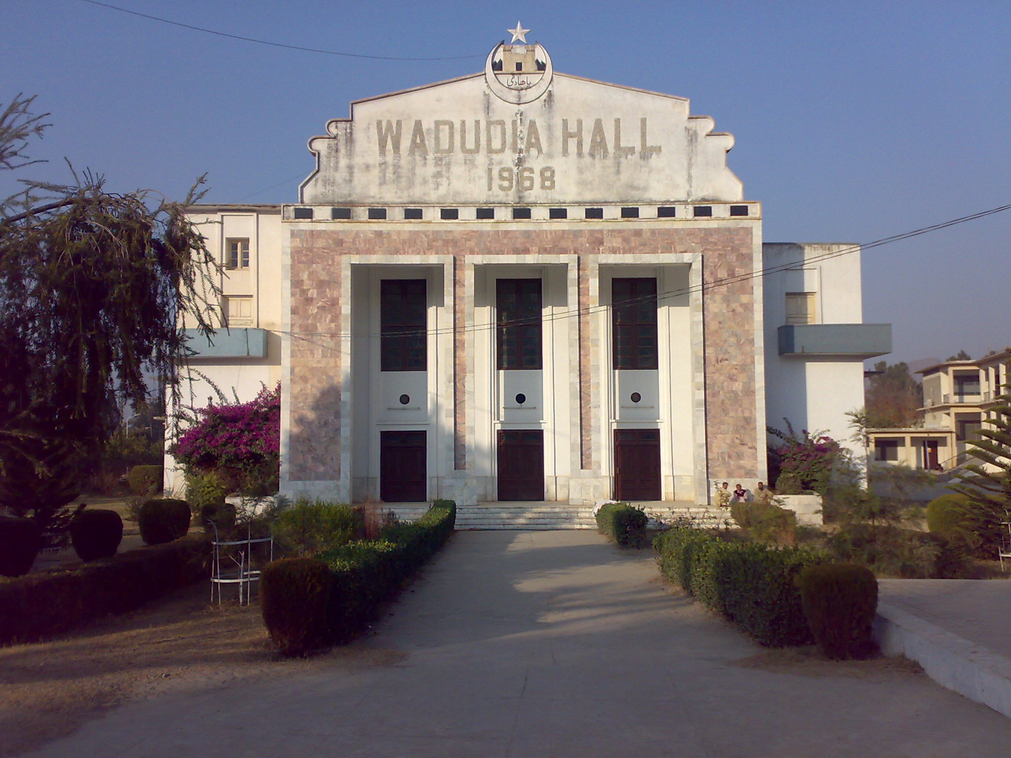 Wadudla Hall, Saidu Sharif, capital city of Swat Valley, Pakistan